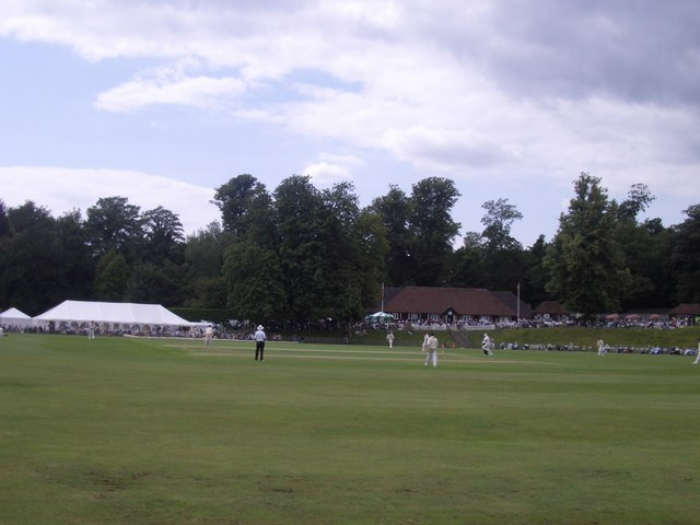 Arundel Castle Cricket Club Ground West Indies: 1st tour match, 2004 - Brian Lara on strike...